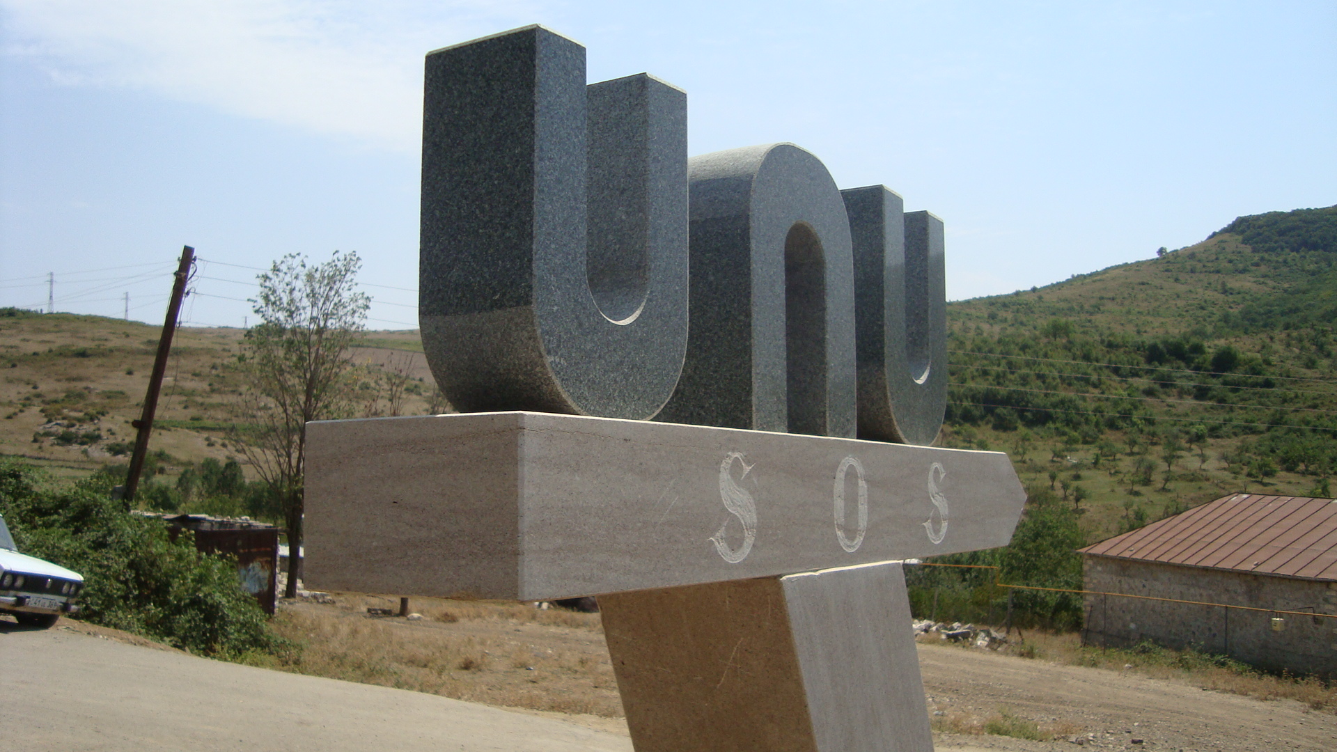 A sign to the village Sos. Martuni district, Republic of Mountainous Karabakh (Artsakh).